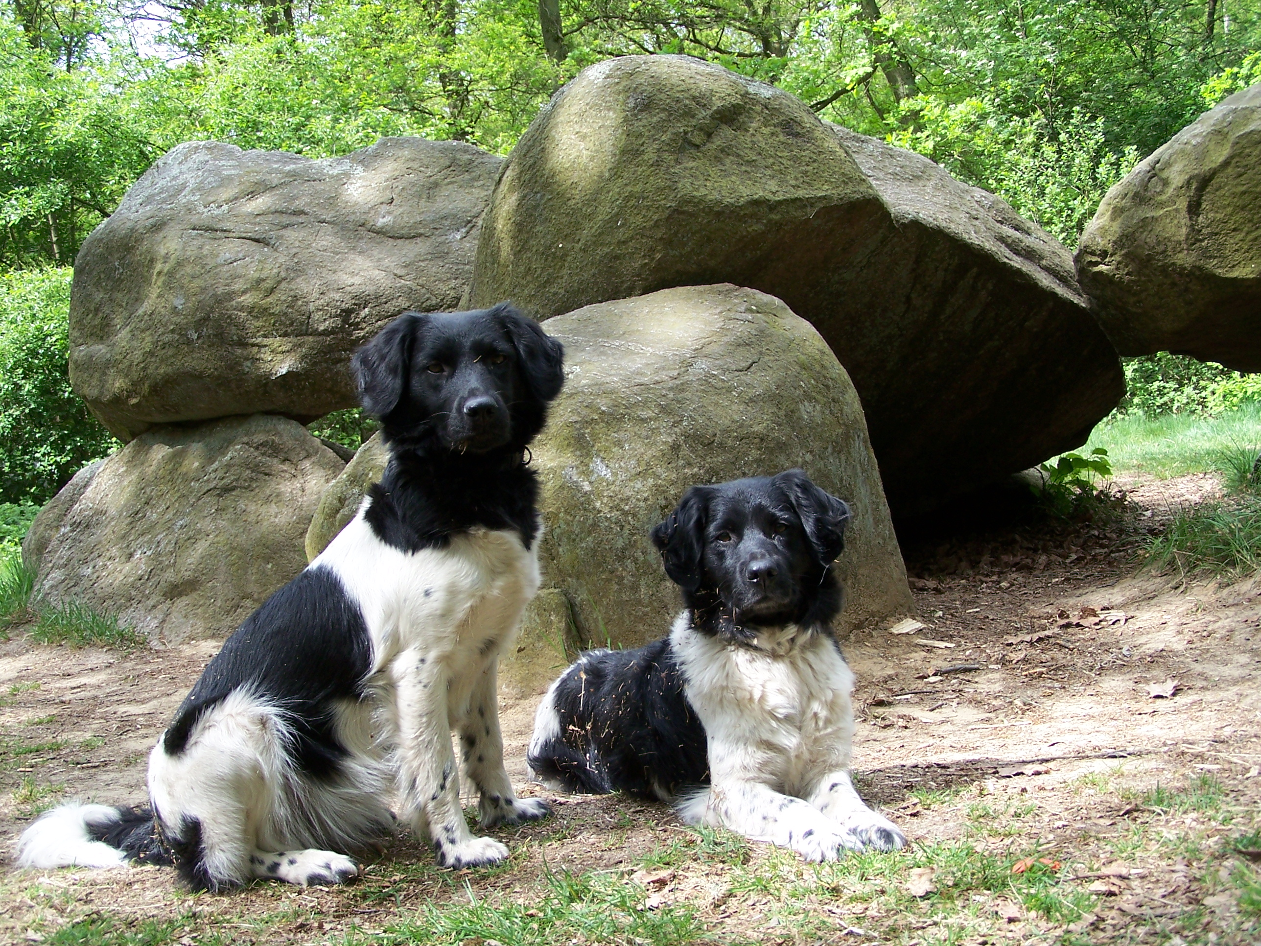 2 Friese Stabijs.